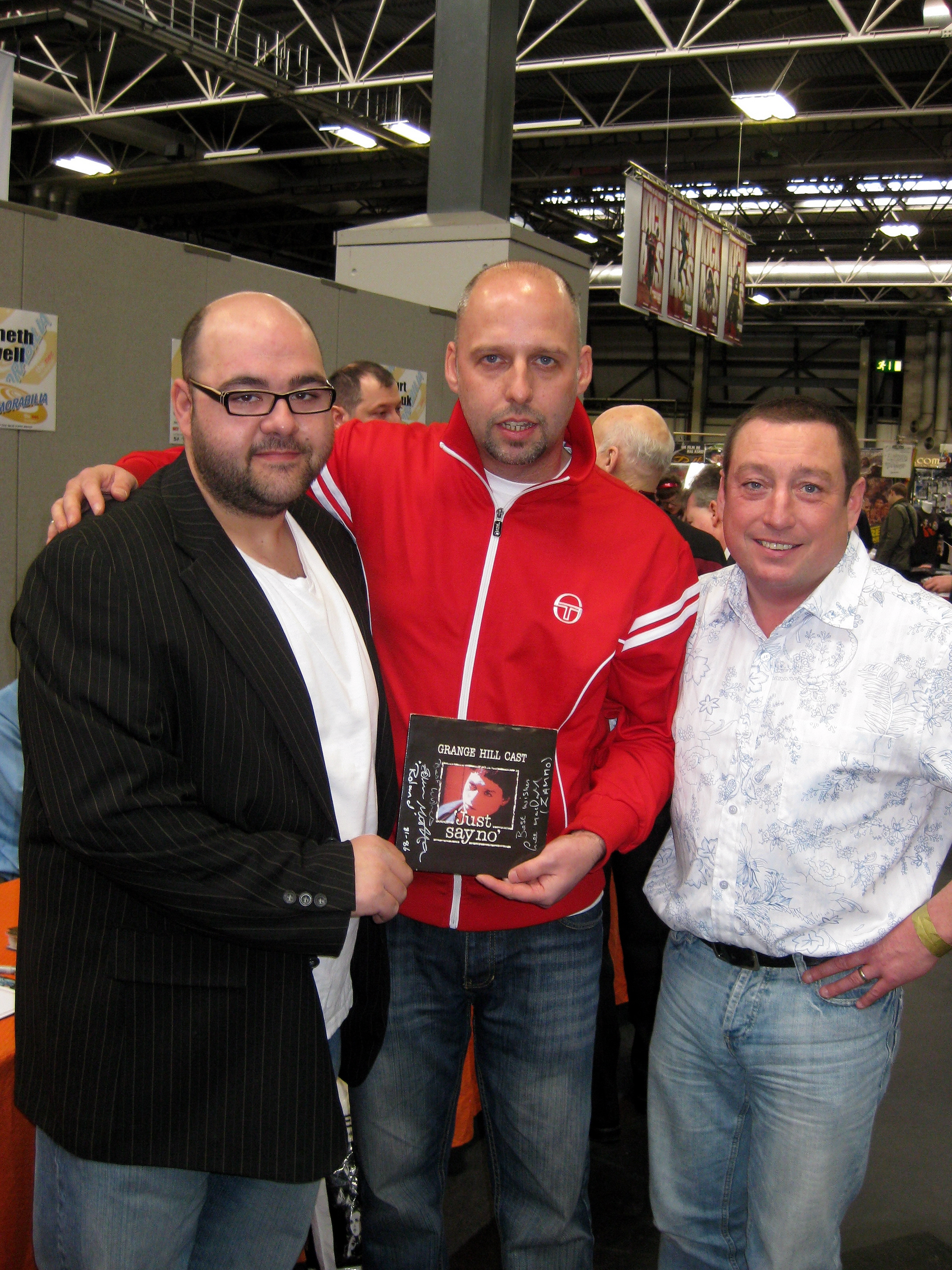 Erkan Mustafa & Lee MacDonald.